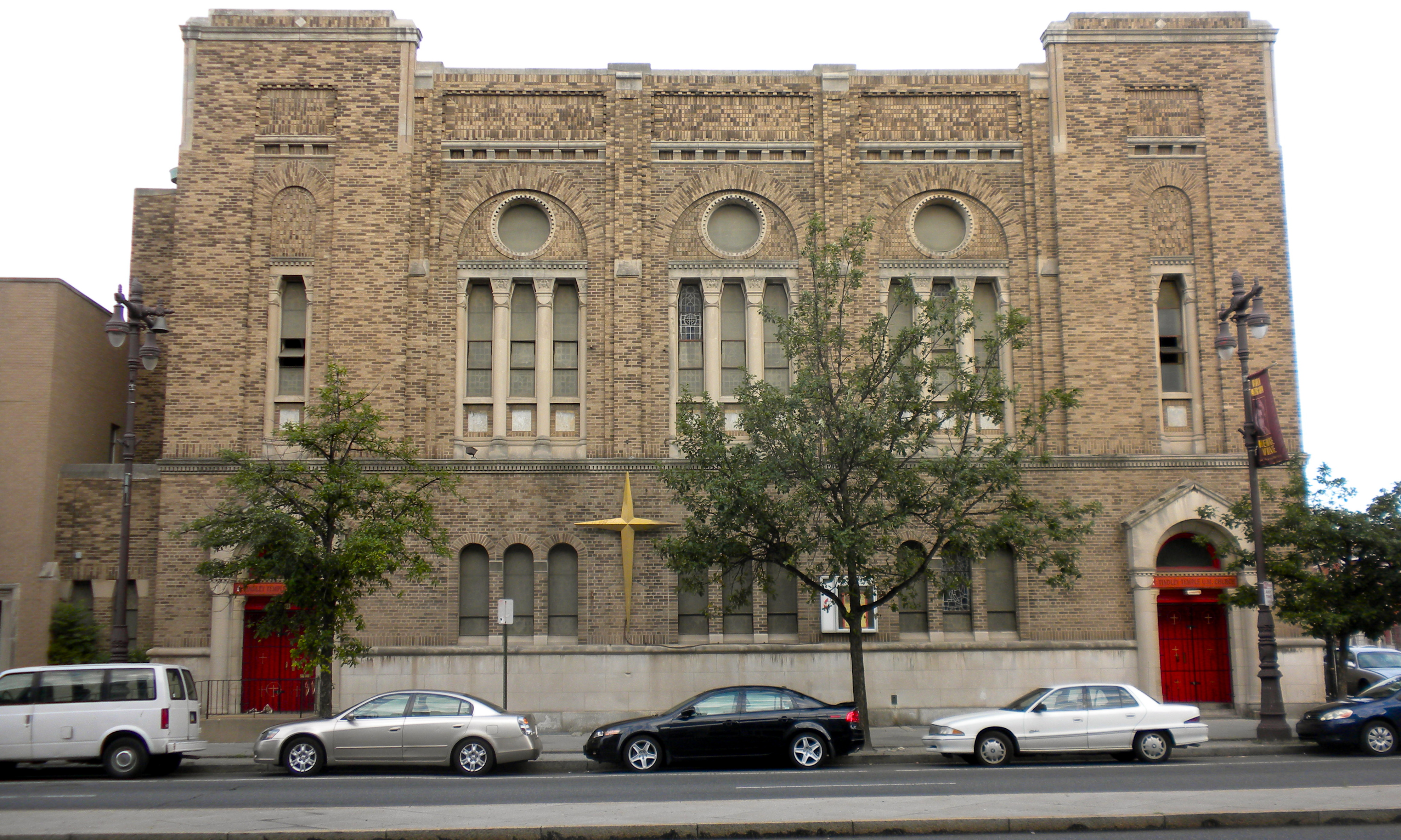 Tindley Temple, subject of Pennsylvania state historical marker, Methodist Church and African American site. 762 S. Broad St., Philadelphia 39.94137°N 75.16607°W